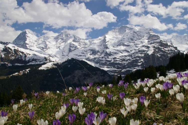 Eiger, Mönch and Jungfrau.